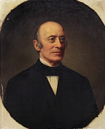 Sitter: William Lloyd Garrison, 1805 - 1879. Artist/Maker: Edwin T. Billings. Oil on canvas. Overall: 30 x 25 in. ( 76.2 x 63.5 cm ).